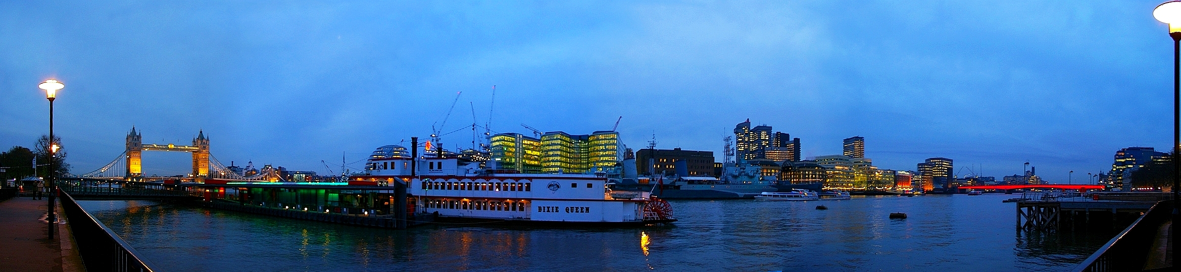 The Towe Bridge panoramaview along River Thamese